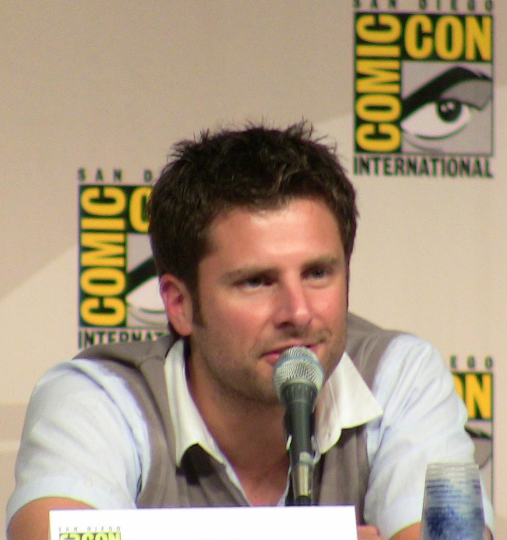 Actor James Roday – Comic-Con 2009 - "Psych" Panel - San Diego - July 23, 2009.